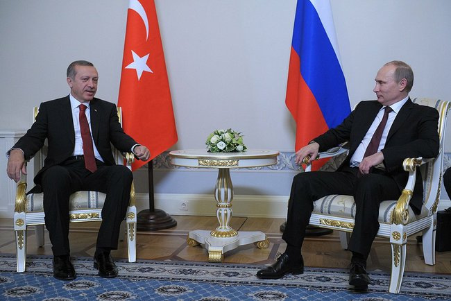 Russian President Vladimir Putin meeting with Turkish Prime Minister Recep Tayyip Erdogan in St.Petersburg.